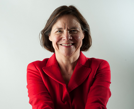 Martine Reicherts, Director-General of the EU's Publications Office